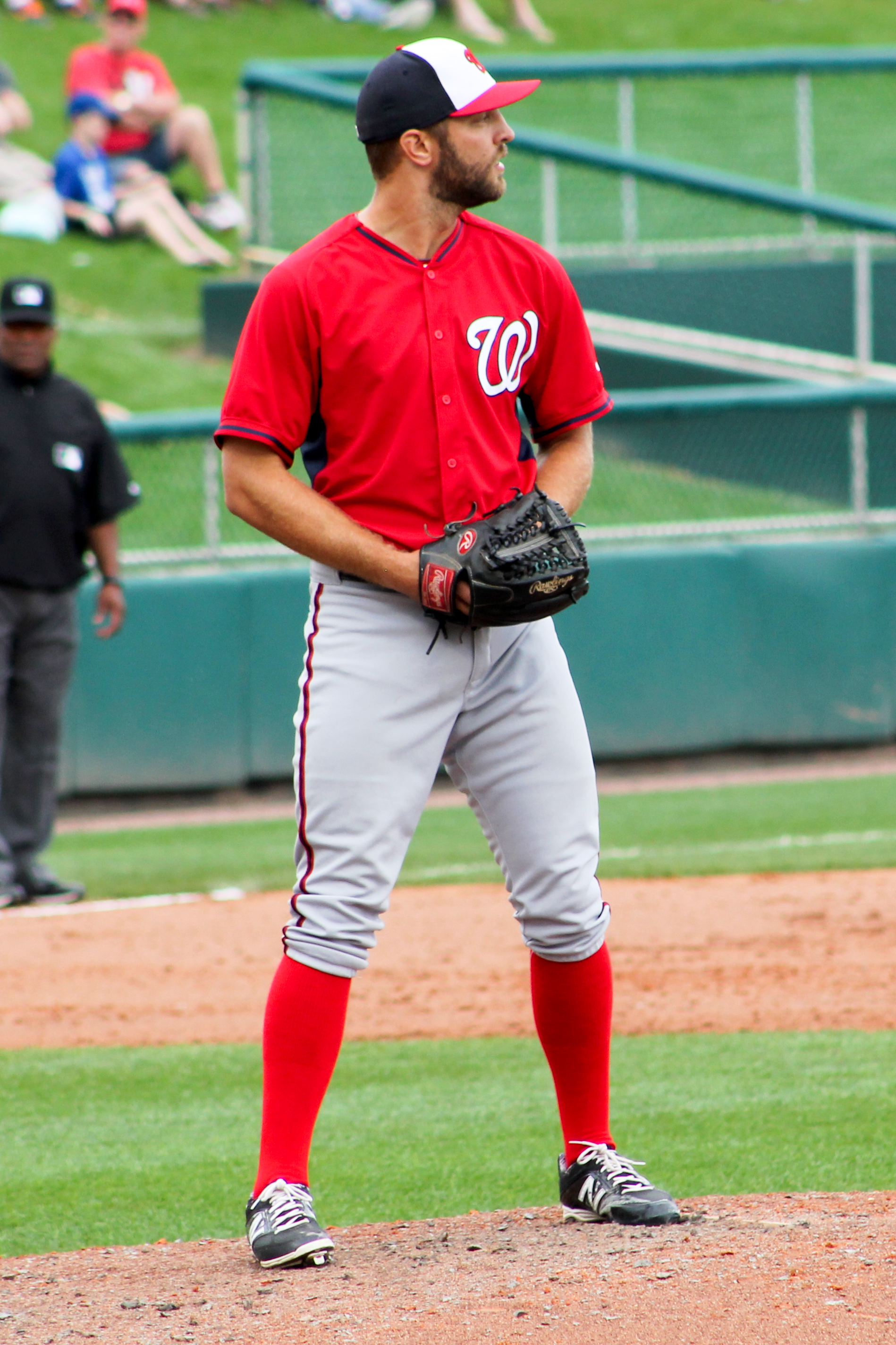 Professional baseball player Matt Grace at spring training in March 2015.